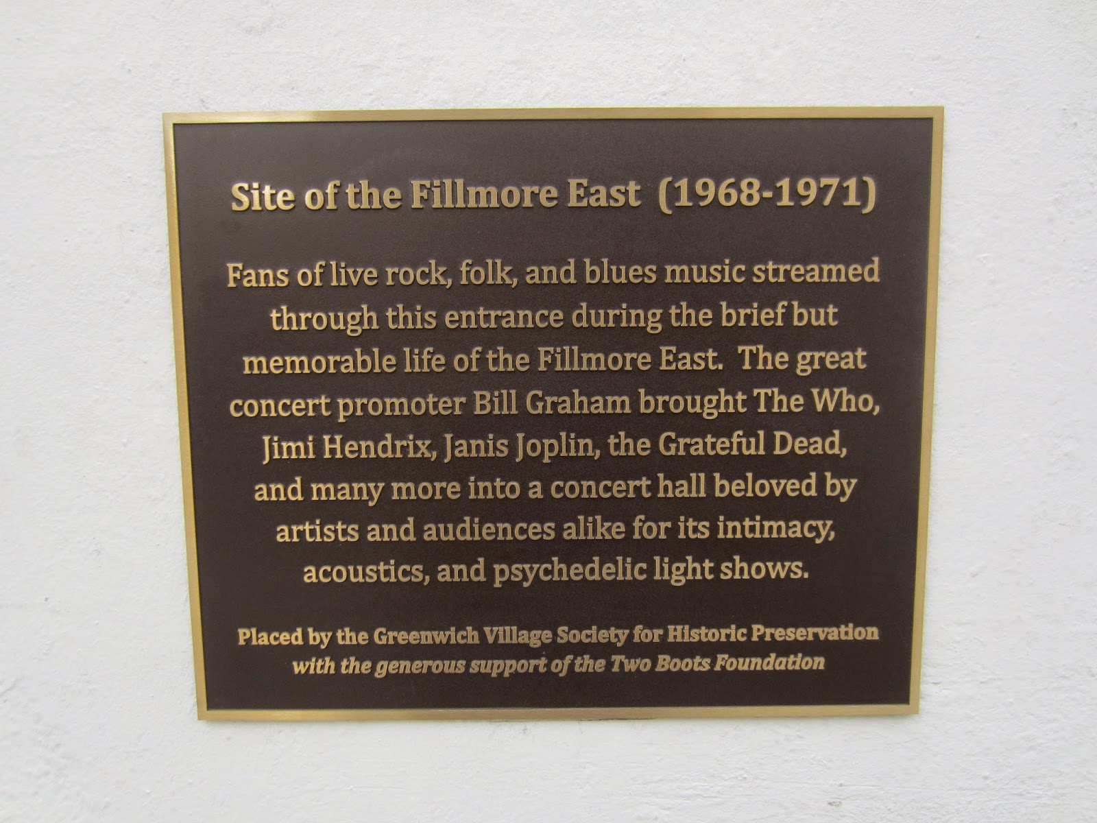 Unveiled on October 29, 2015 by Greenwich Village Society for Historic Preservation Text of Plaque with line breaks as they appear: Site of the Fillmore East (1968-1971) Fans of live rock, folk, and blues music streamed through this entrance during the brief but memorable life of the Fillmore East. The great concert promoter Bill Graham brought The Who, Jimi Hendrix, Janis Joplin, the Grateful Dead, and many more into a concert hall beloved by artists and audiences alike for its intimacy, acoustics, and psychedelic light shows. Placed by the Greenwich Village Society for Historic Preservation with the generous support of the Two Boots Foundation